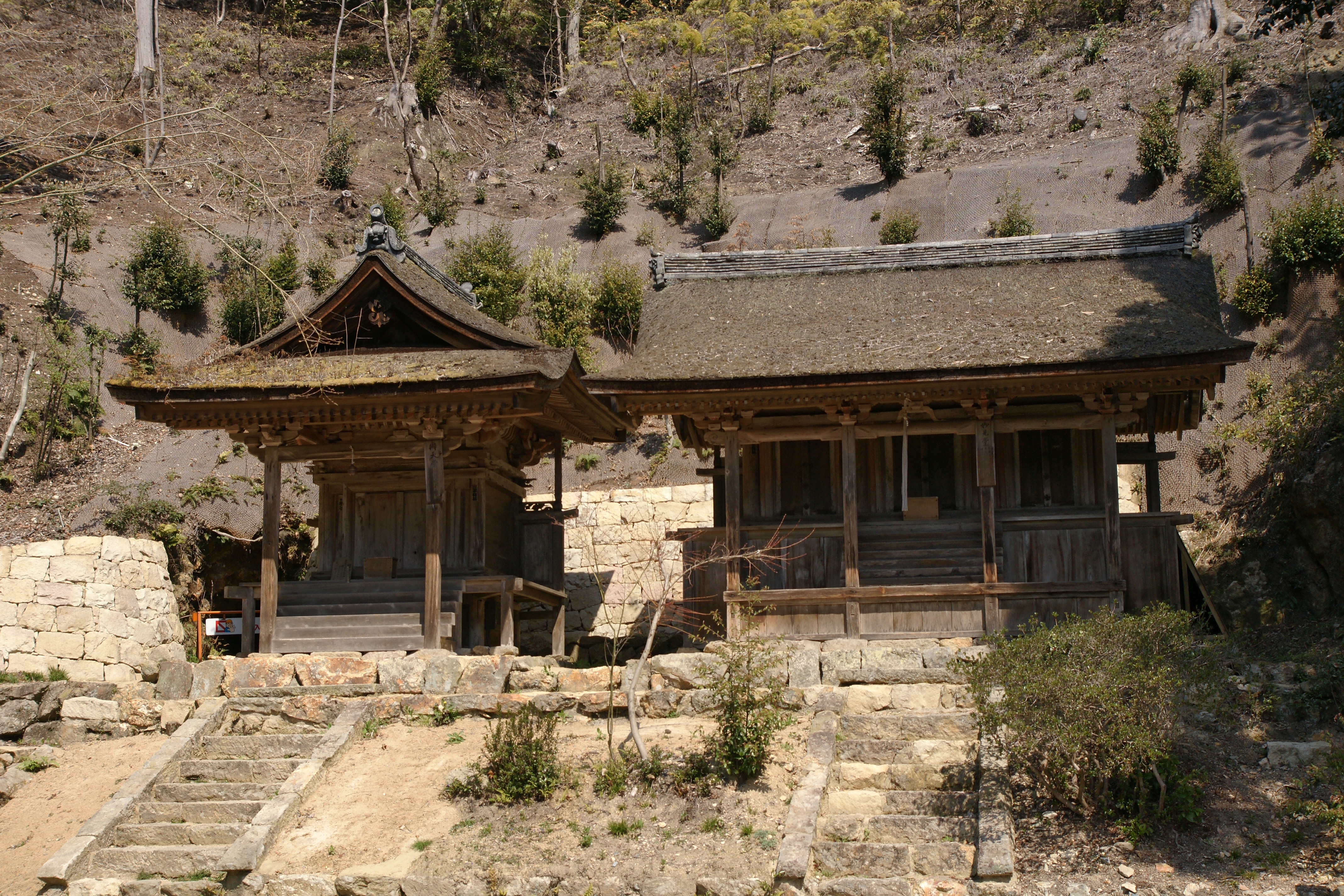 Ichijoji in Kasai, Hyogo prefecture, Japan